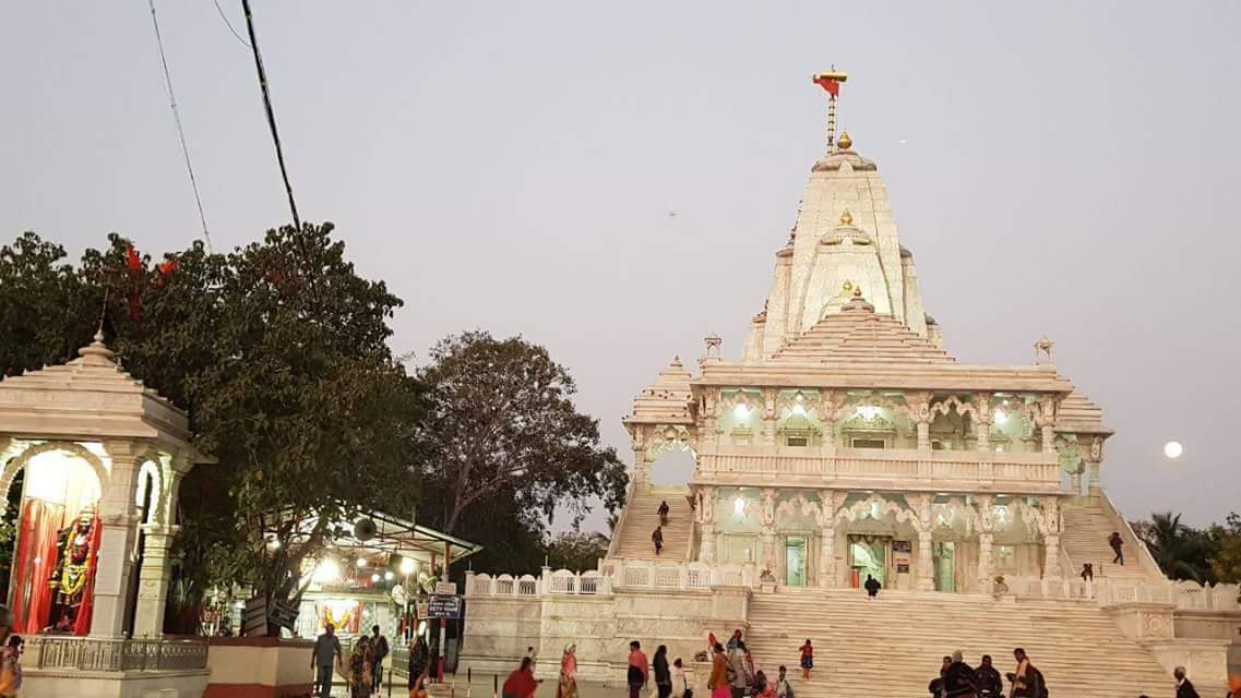 Bagdana , bajrang das bapa temple